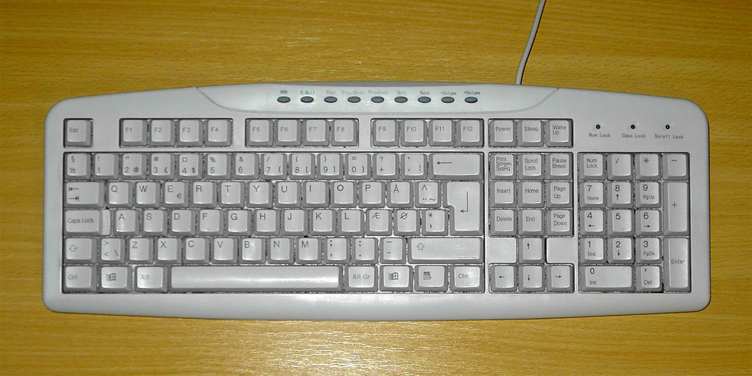 Computer keyboard with danish layout including the characters Æ, Ø and Å.